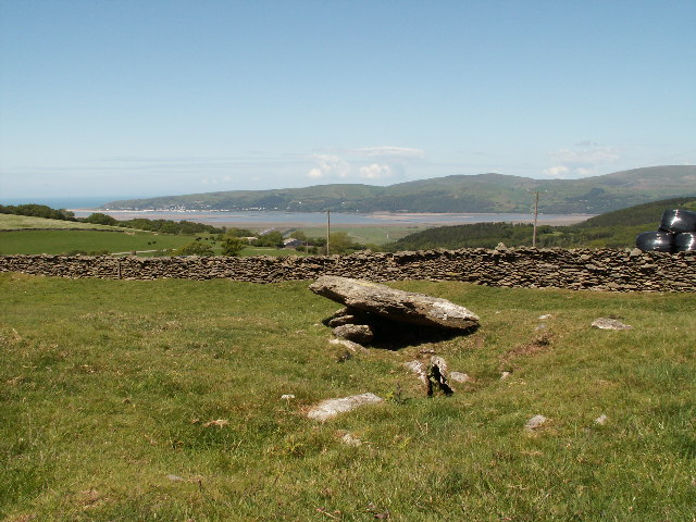 Bedd Taliesin. Bronze Age kerb cairn, in the hills (230m.) above Taliesin and Talybont. Reputed burial place of Taliesin the poet. The capstone is approx 1.75m x 1.1m.